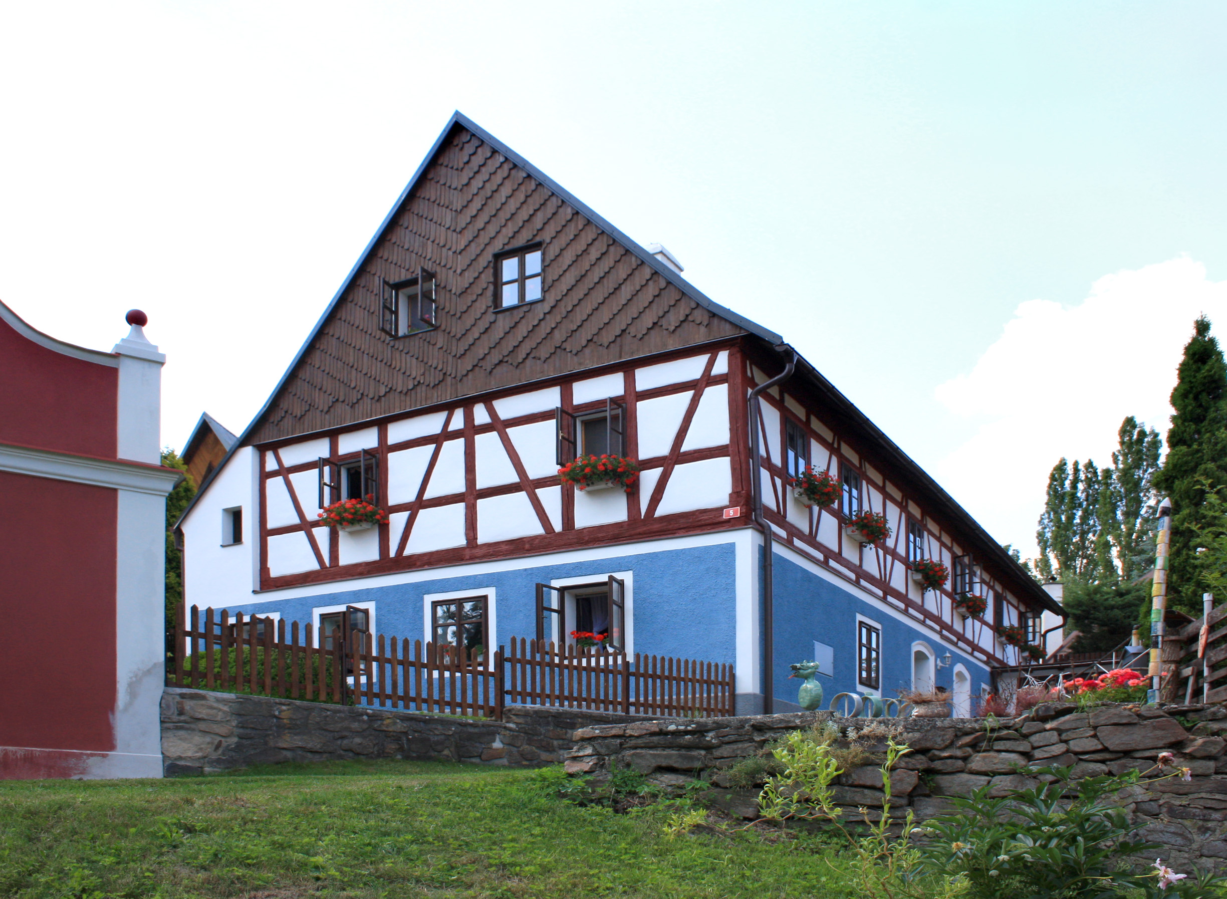 Hrádečná, part of Blatno, Czech Republic